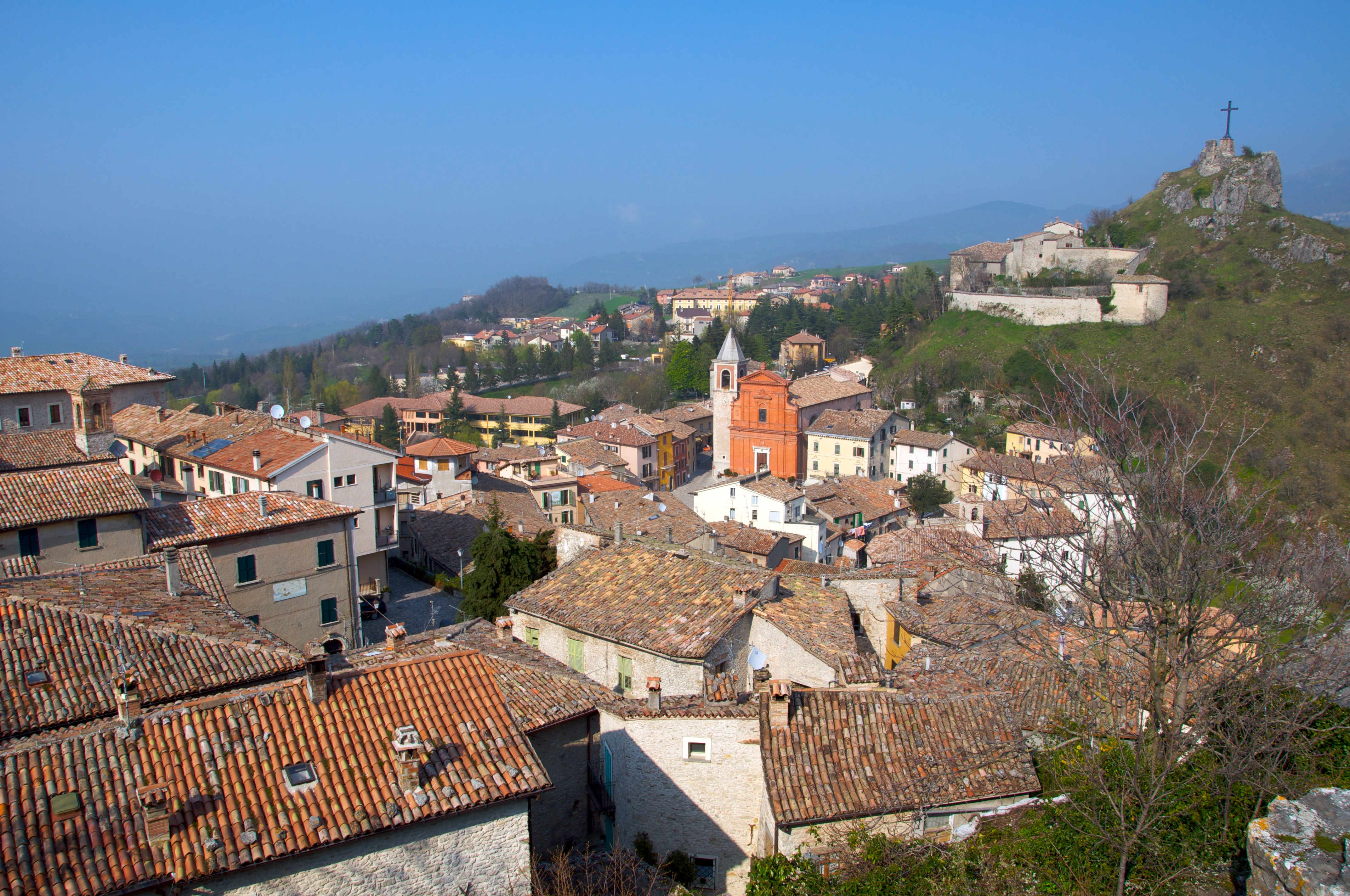 Pennabilli (RN) town from above.